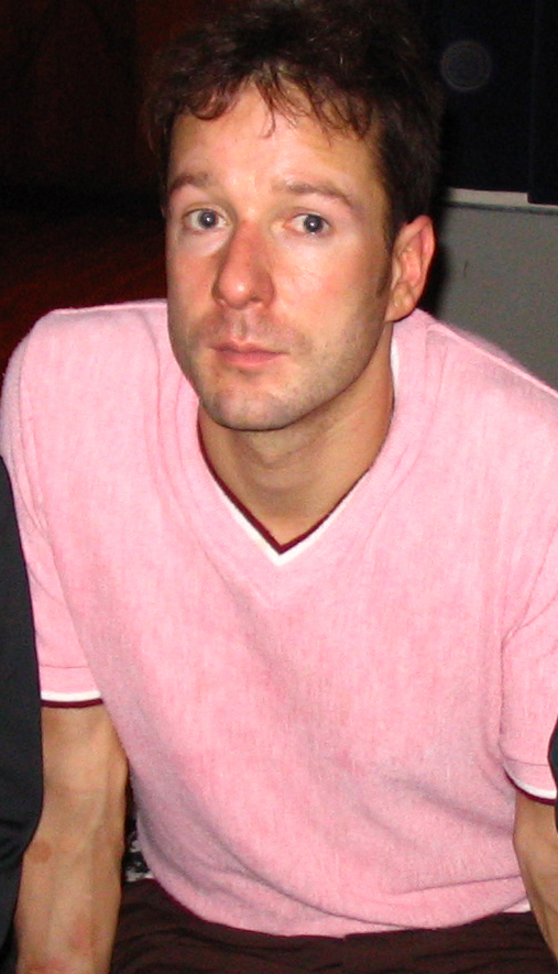 Matt Sharp after a public, solo music show at the WOW Hall in Eugene, Oregon on Sept. 22, 2004. Photo taken by BoboMejor.